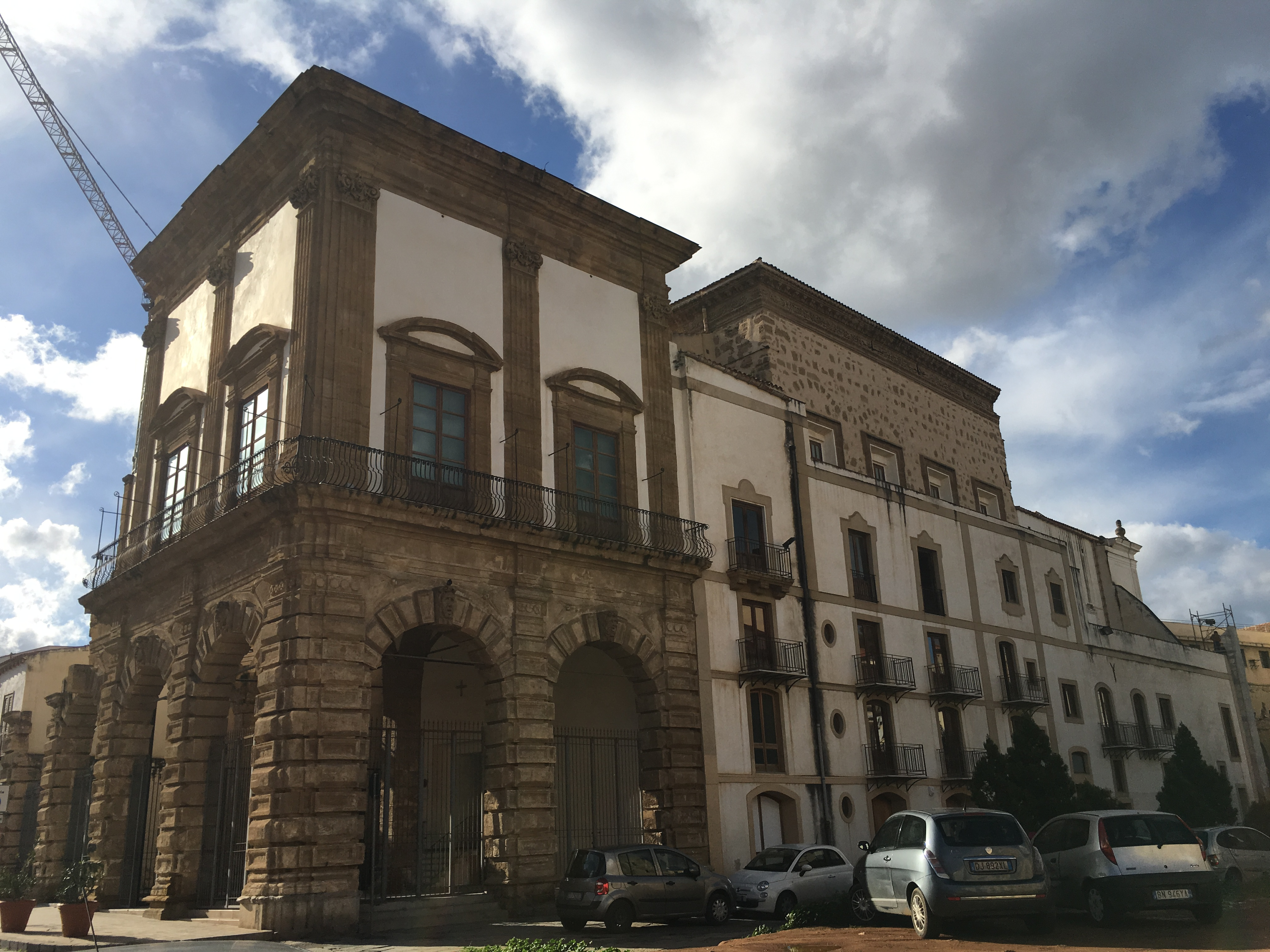 Oratorio dei Bianchi, lateral view